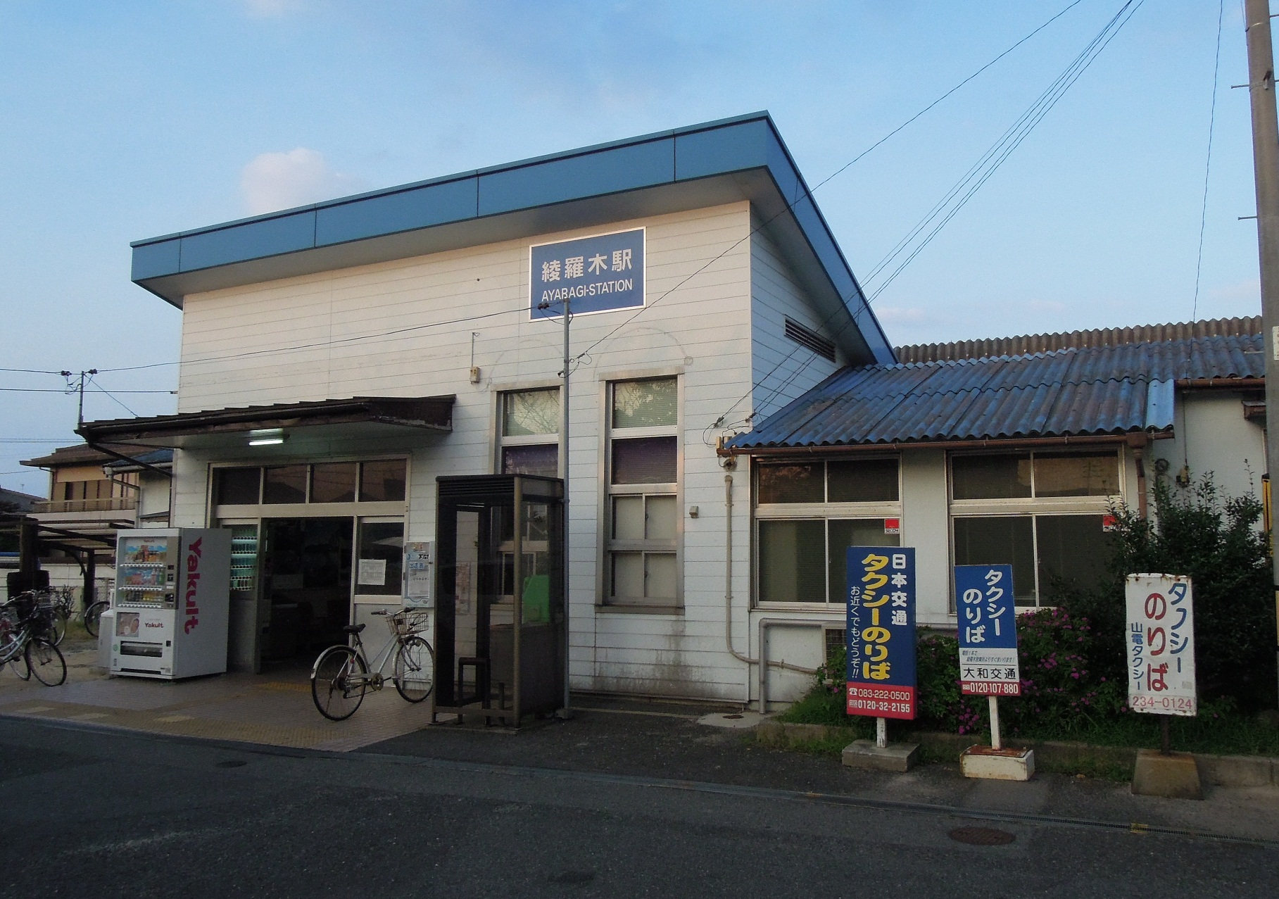 Ayaragi Station on San'in Main Line